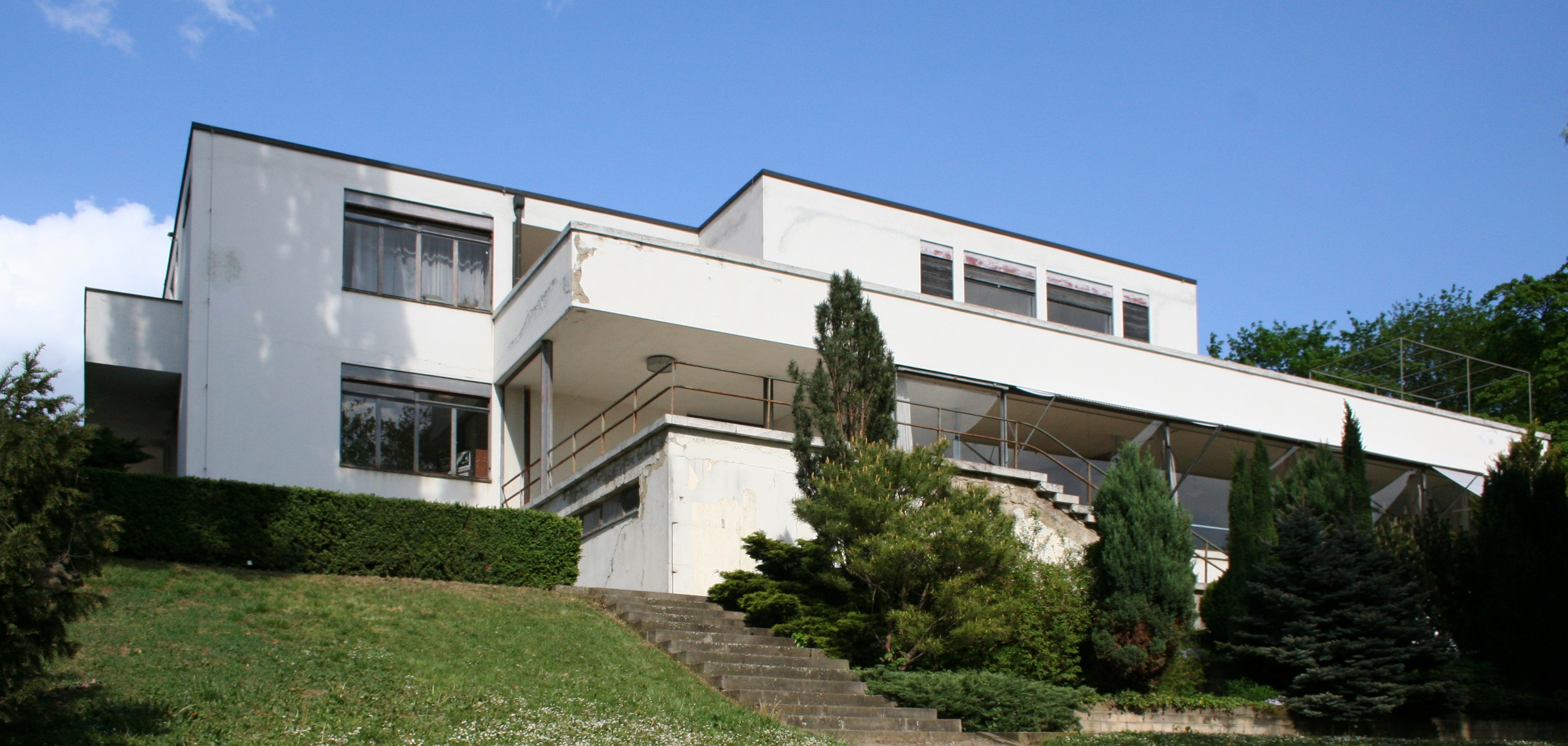 Villa Tugendhat, Brno, Czech Republic.